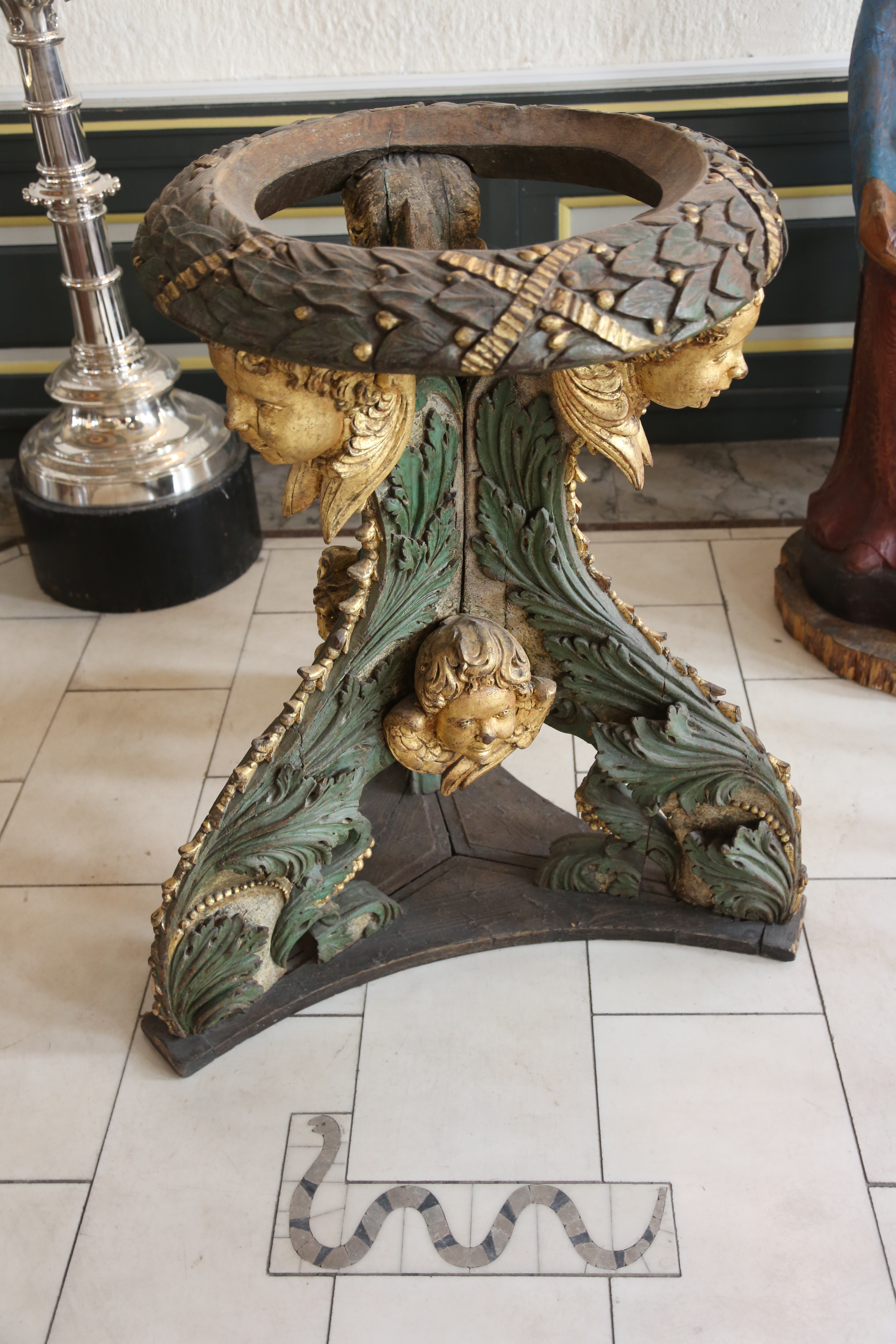 Oslo domkirke (Oslo Cathedral). Baptismal font from 1721